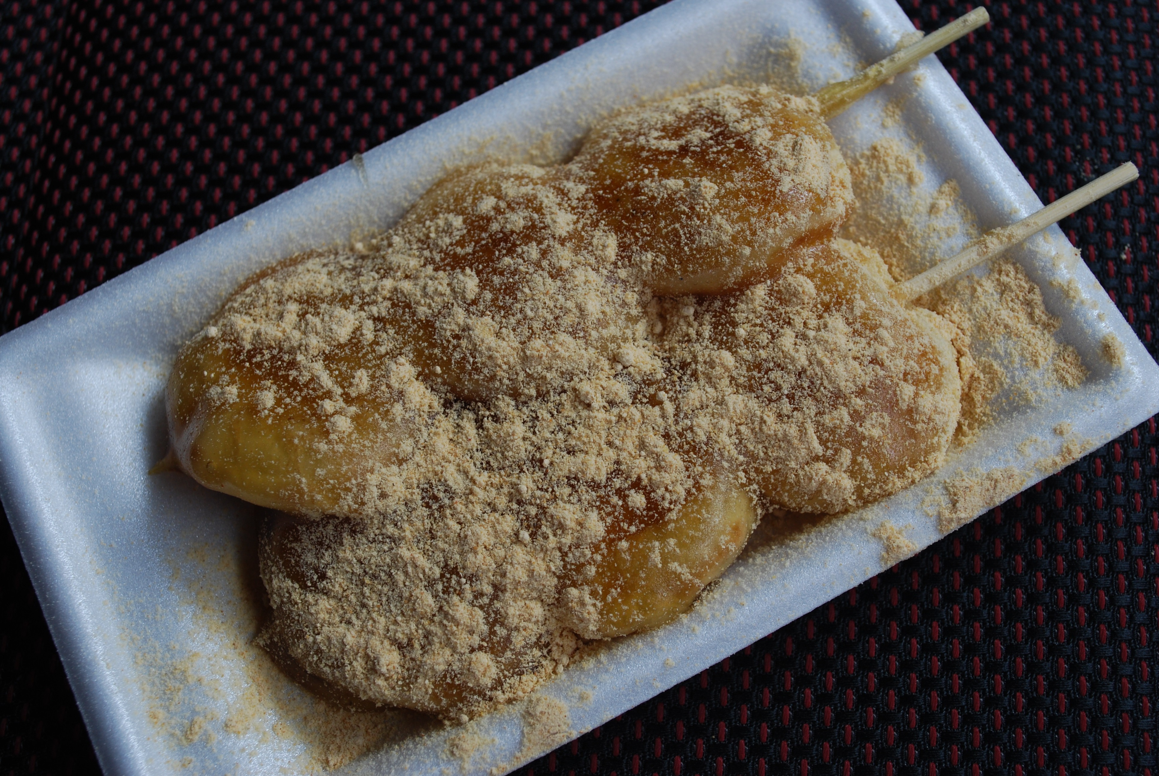 Mitsu-dumpling,Oarai town,japan